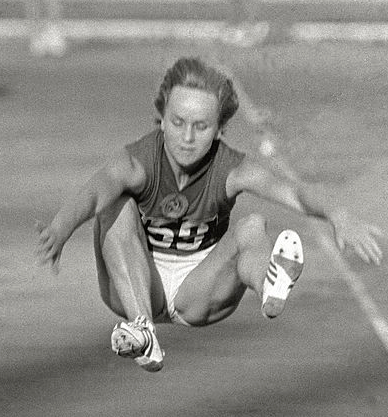 Vera Krepkina at the 1960 Olympics